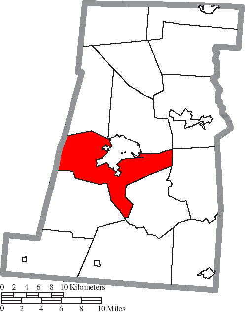 Map of the municipal and township boundaries of Madison County, Ohio, United States, as of the 2000 census, with the location of Union Township highlighted. Township borders are shown only in unincorporated areas in order to differentiate incorporated and unincorporated areas more clearly.